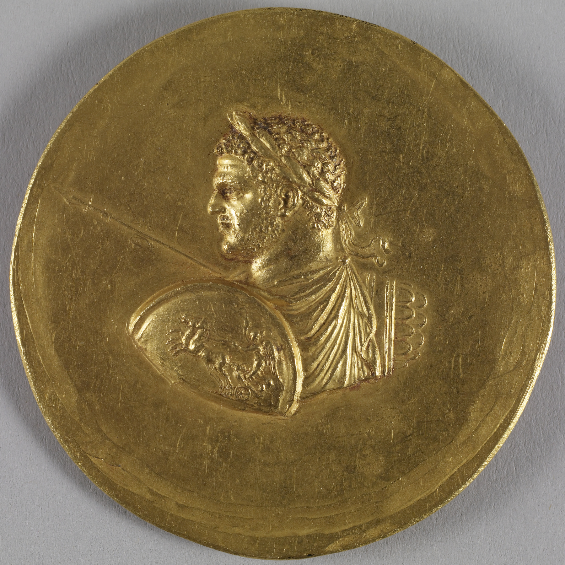 Together with 59.1 and 59.2, this piece was discovered in Egypt as part of a hoard that comprised about twenty similar medallions (now dispersed among various museums), eighteen gold ingots, and six hundred gold coins issued by Roman emperors from Severus Alexander (r. AD 222-235) to Constantius I (r. AD 293-306). One of the medallions, now in the Calouste Gulbenkian Museum in Lisbon, bears an inscription that possibly reads "Olympic games of the year 274", a date corresponding to AD 242-243. It is possible that the medallions were intended as prizes to be given out at that event. Alternatively, they may have been issued by Emperor Caracalla (ruled 198-217 AD), who is potrayed on the present one in profile, bearing a shield on his shoulder decorated with the image of Nike in a racing-chariot. The back depicts Caracalla's distant predecessor King Alexander of Macedon (r. 336-323 BC) in short chiton and chlamys (a cloak) hunting a boar. This depiction of a royal hunt was intended to emphasize the prowess that Alexander also showed in battle.